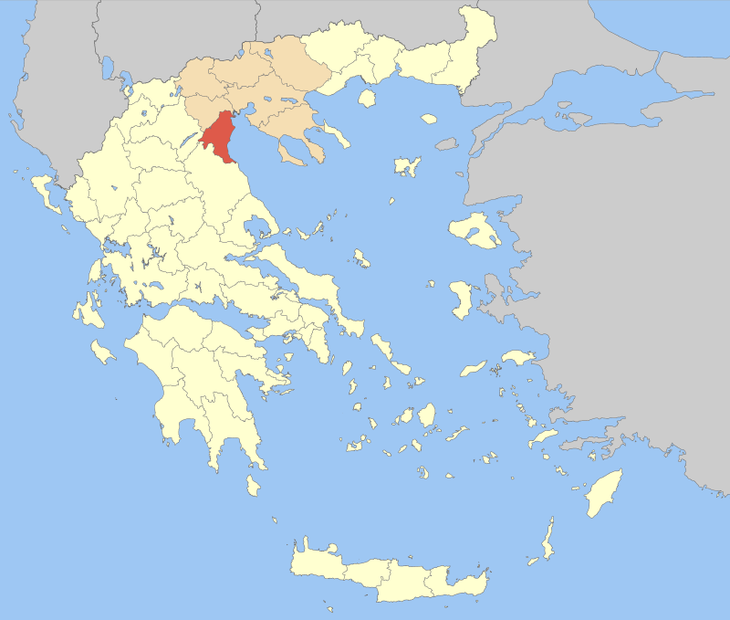 Locator map of Pieria prefecture (Νομός Πιερίας) in Greece